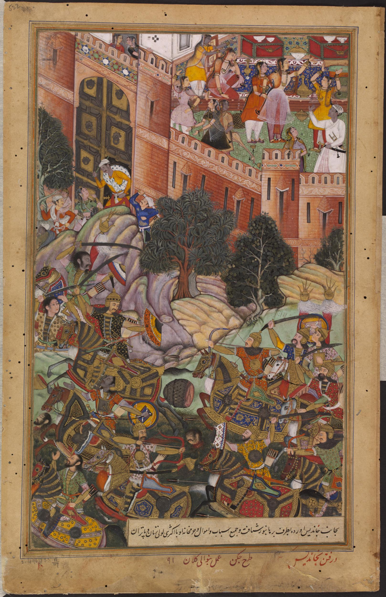 Baz Bahadur fleeing Mandu after his defeat at the hands of Adham Khan during the Mughal conquest of Malwa, in the Akbarnama